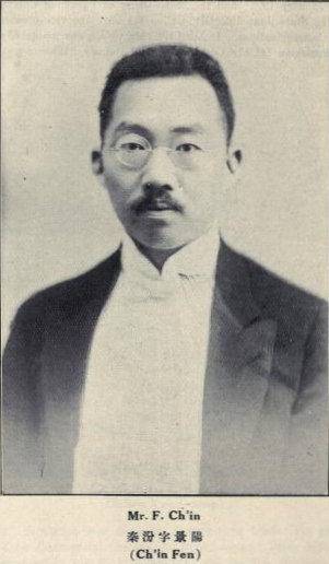 Qin Fen (Ch'in Fen; F. Ch'in) (1882 - 1973)